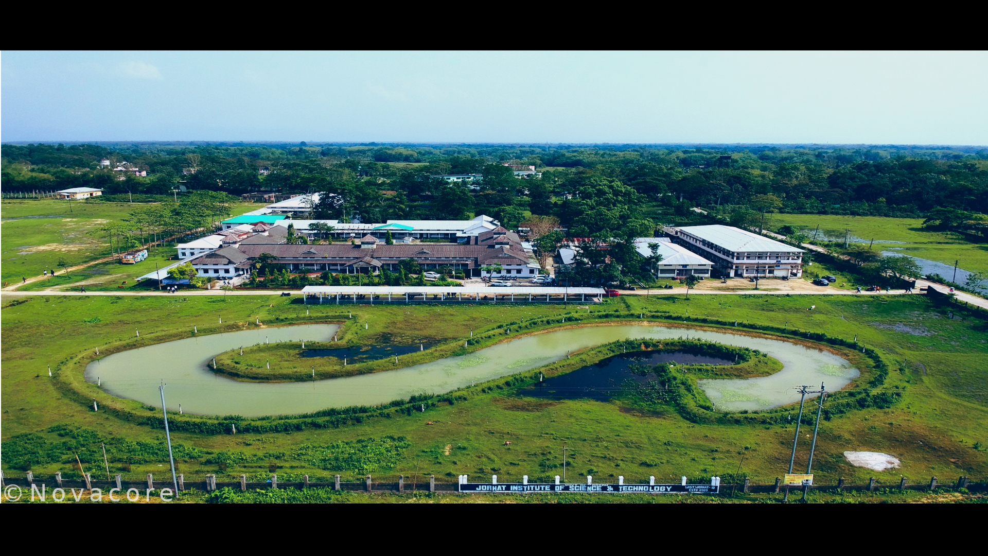 Jorhat institute of science and technology , formerly known as Science College.A photo by exclusivenortheast .shot on dji